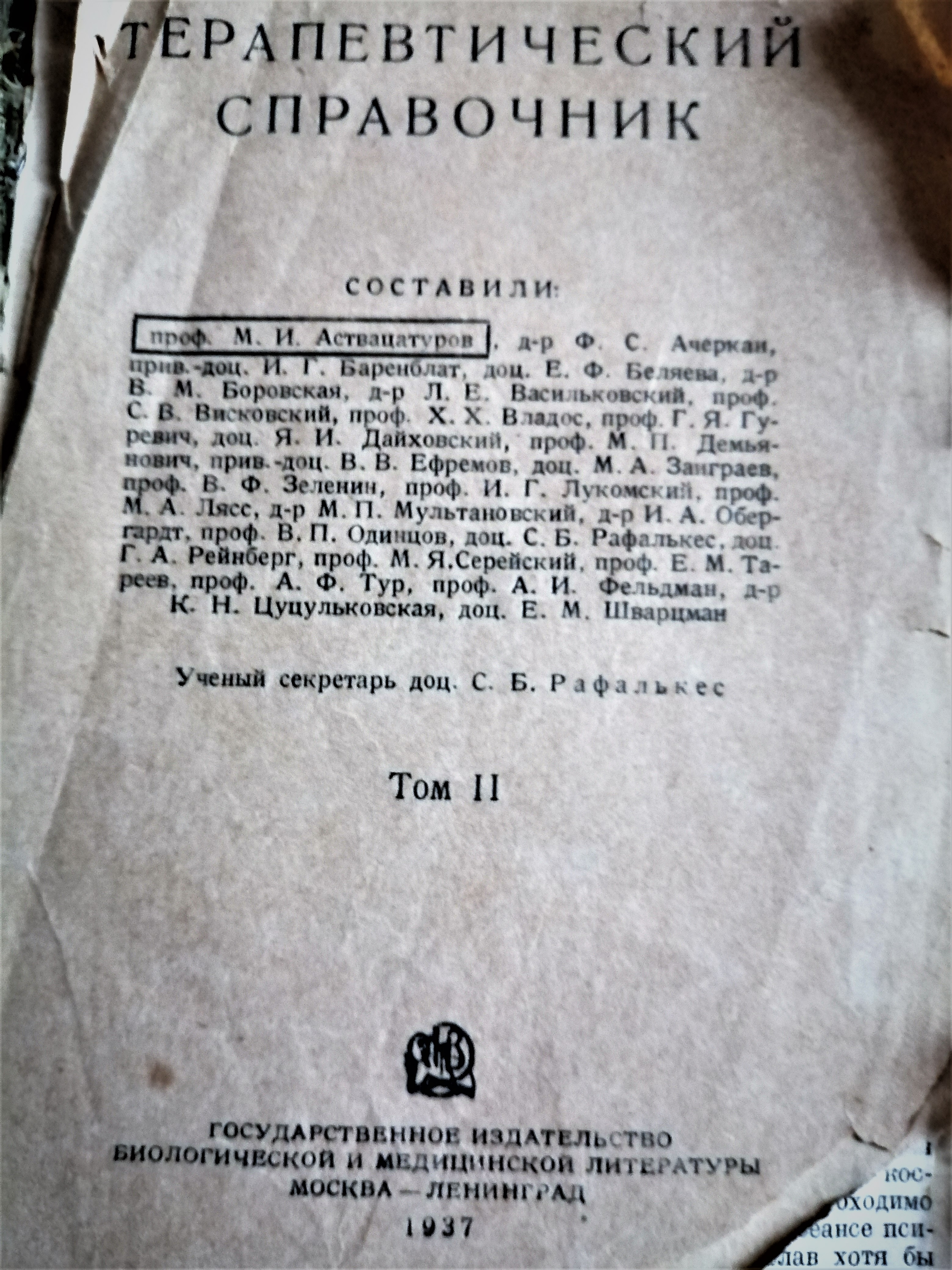 The title page of the Therapeutic reference book, vol. II, Leningrad, 1937.